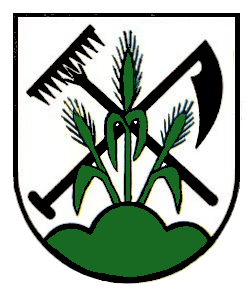 Coat of arms of Bietingen in Gottmadingen